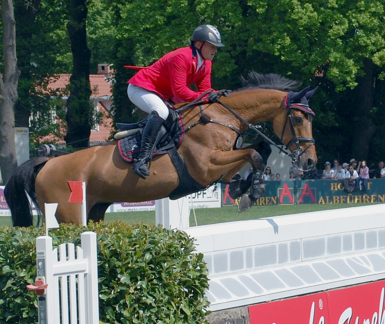 German rider Thomas Kleis with Carassina at the German show jumping derby, Hamburg 2012